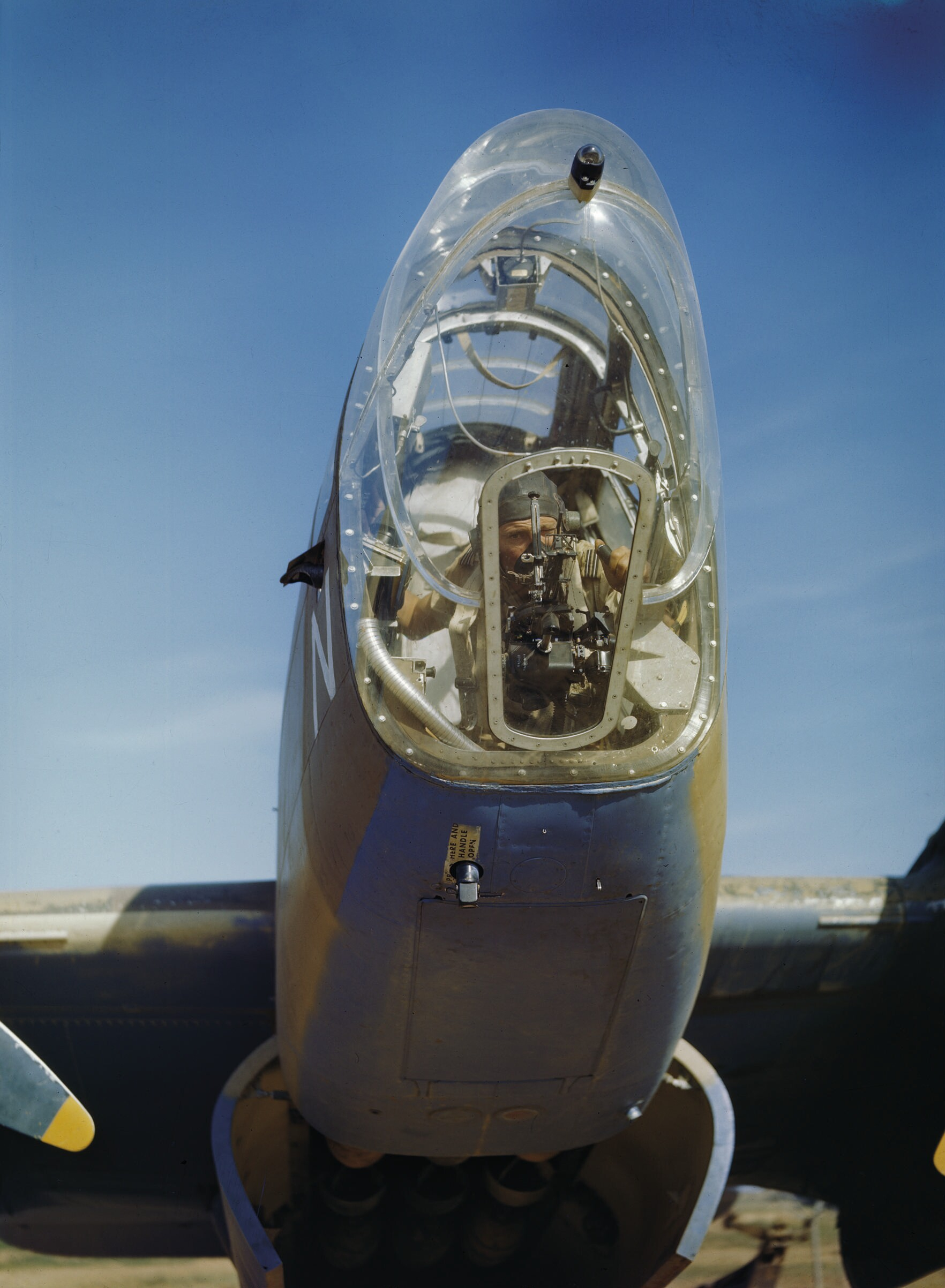 The Royal Air Force in Tunisia, April 1943 A Flight Lieutenant bomb-aimer of No 223 Squadron, Royal Air Force checks over his bomb sight in Martin Baltimore aircraft `N-NAN'. The open bomb-bay doors give a glimpse of general purpose 250-pounder bombs.